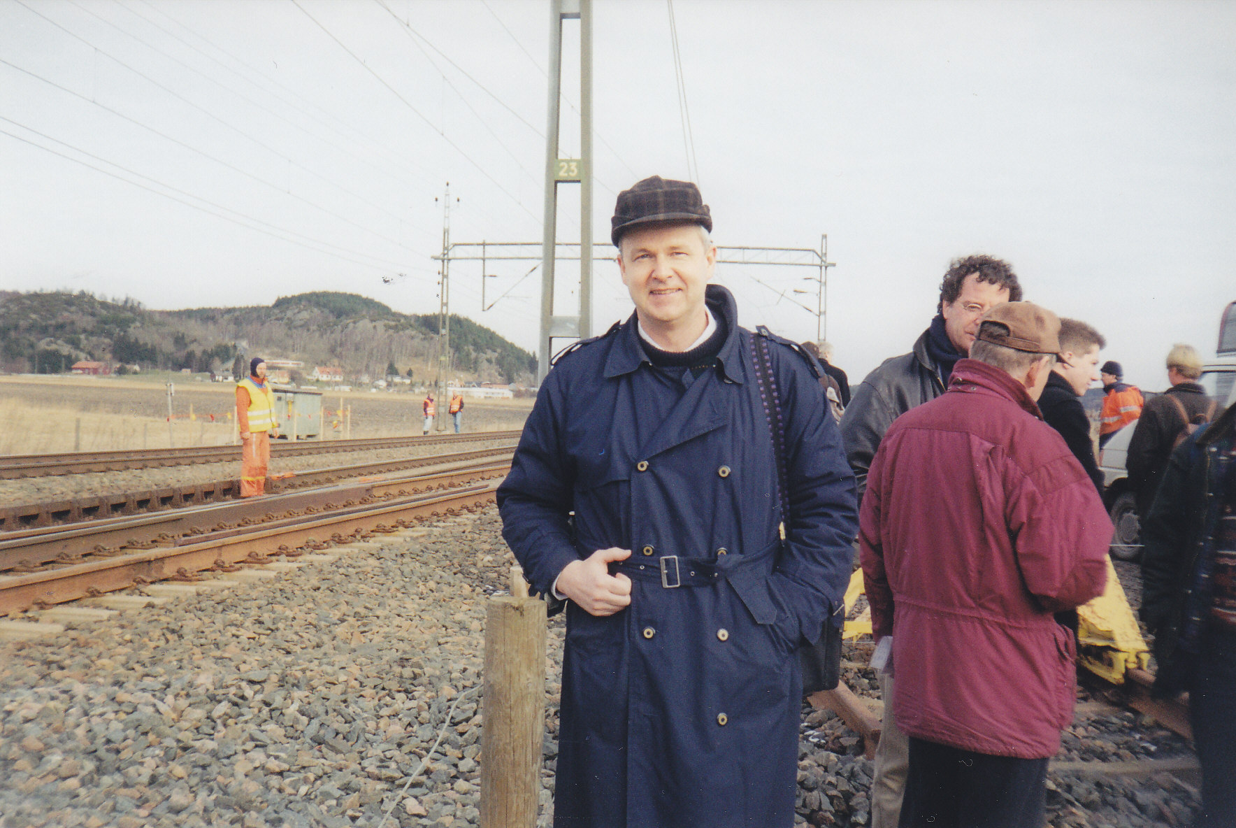 Prof Victor V Krylov at Ledsgard, Sweden, during the demonstration of ground vibration boom from a high speed train X2000 in March 2000.